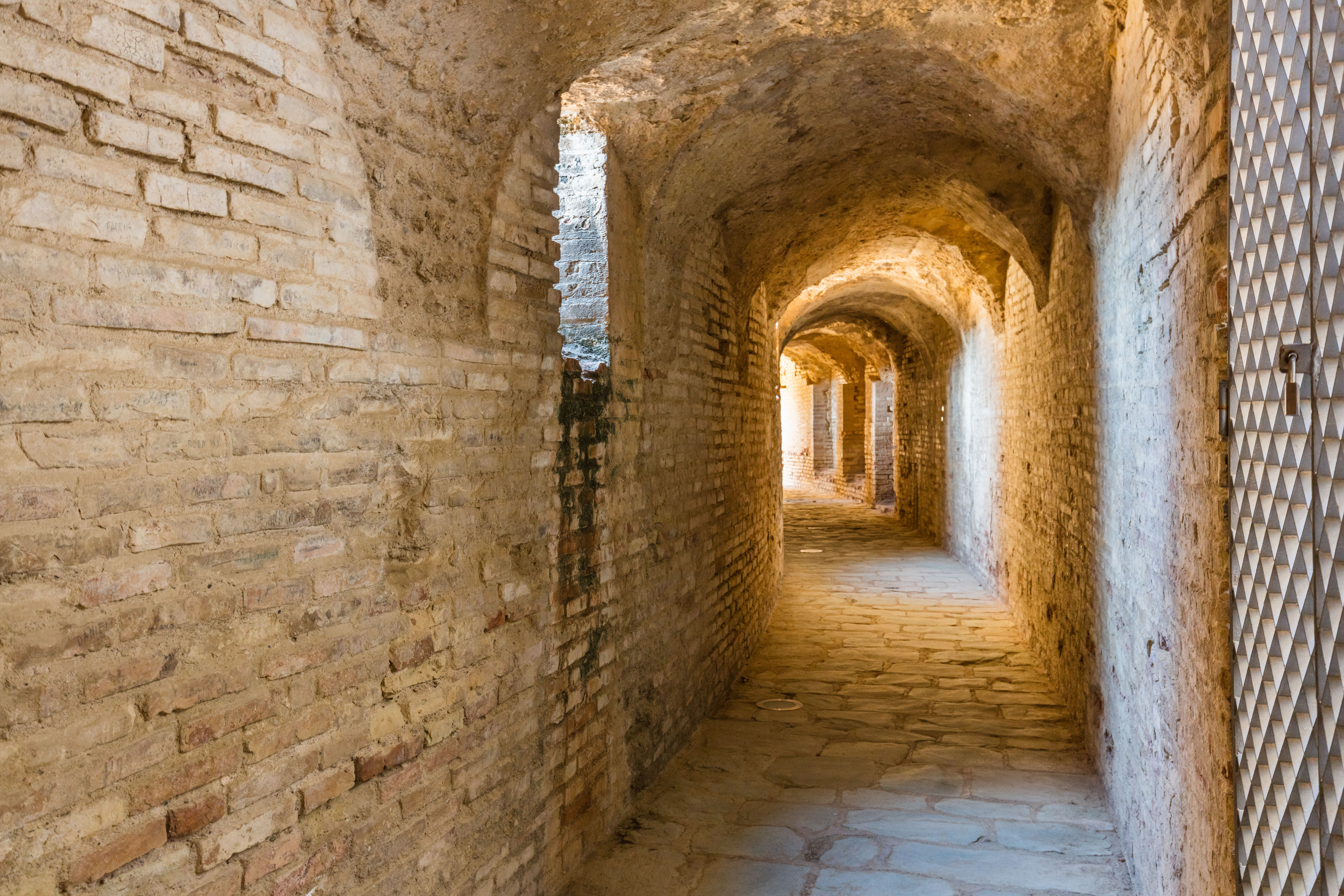 Amphitheater of the ancient roman city of Itálica, Santiponce, Seville, Spain